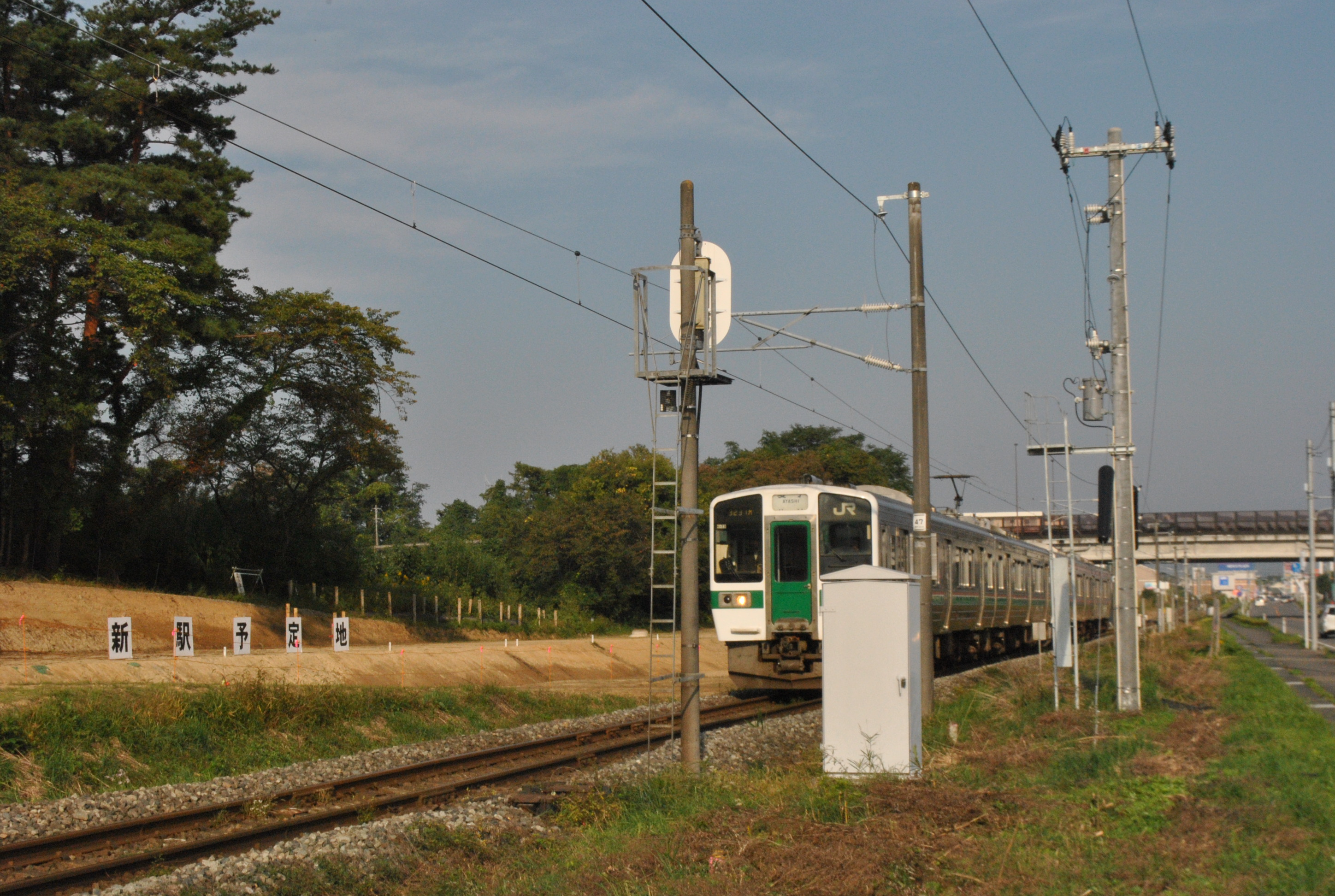 A JR East 719 series EMU on the Banetsu West Line passing the site of the proposed Koriyama-Tomita Station